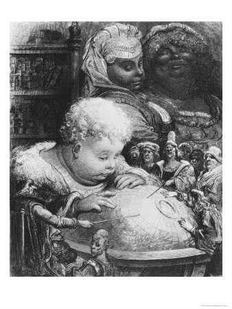 иллюстрация к роману "Гаргантюа и Пантагрюэль"